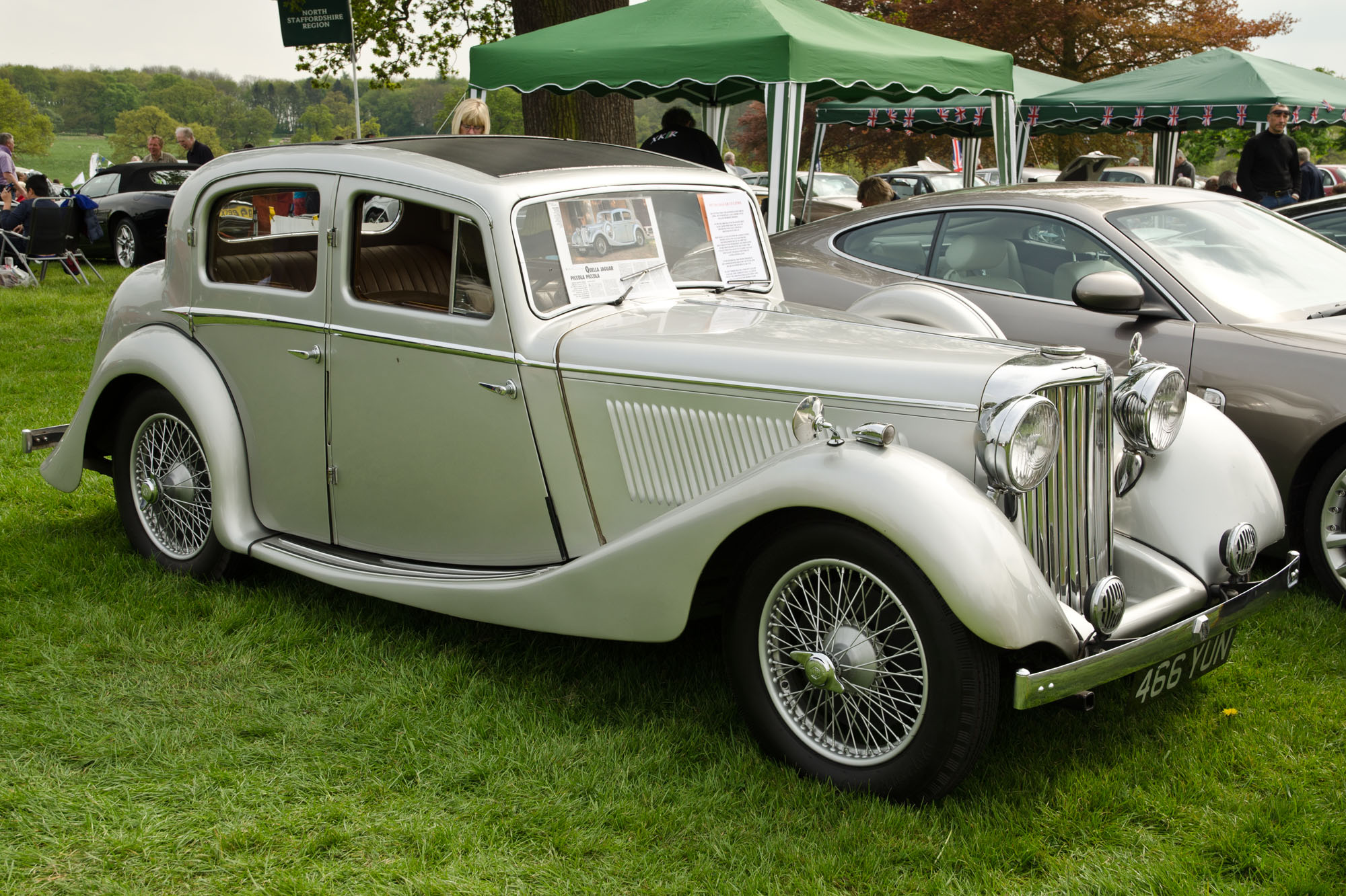 1937 Jaguar 1½ litre by SS (DVLA) first registered Catton Hall Classic Car Show 4 May 2014